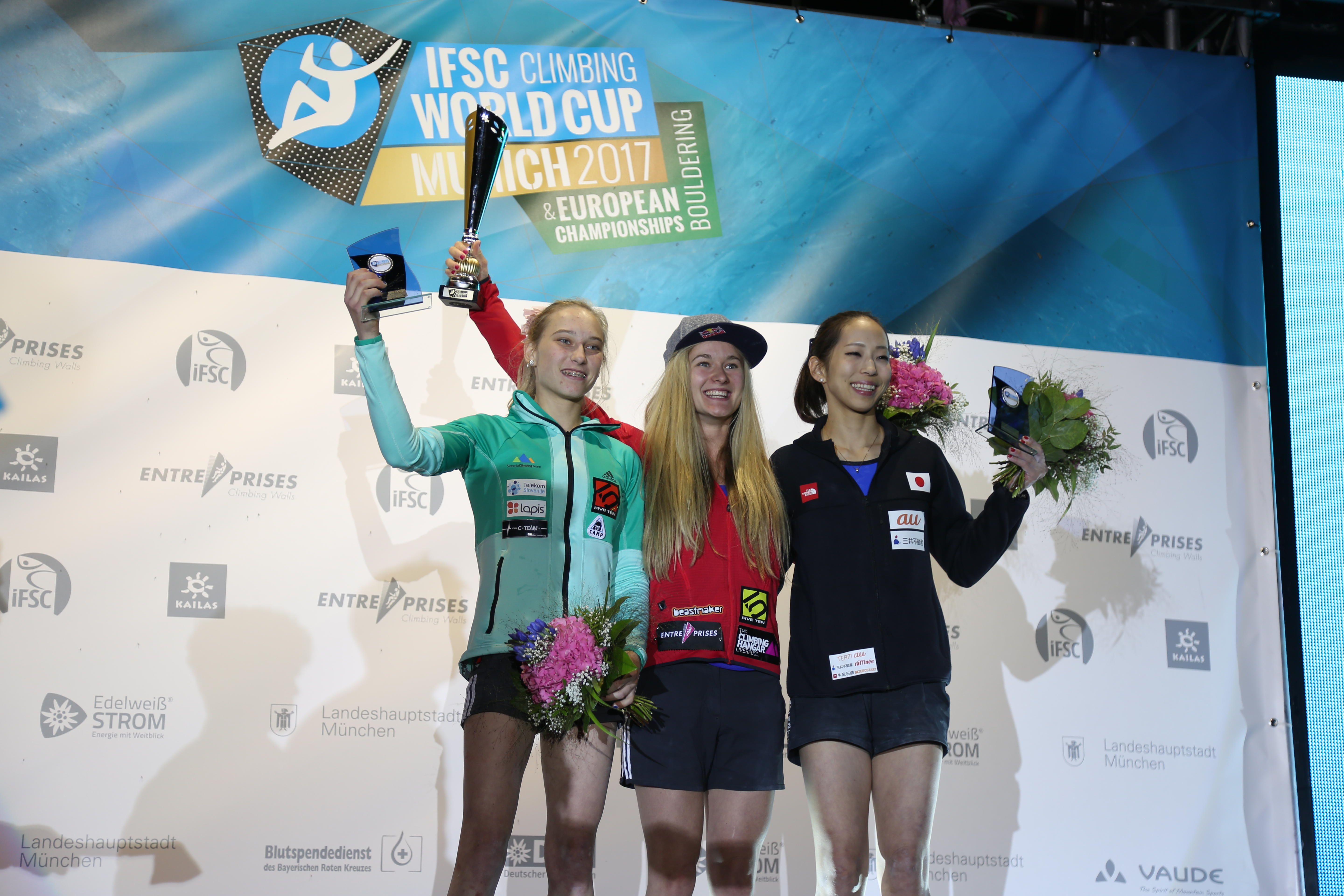 Boulder Worldcup 2017 at Munich, Germany, winners of the saison, women. 1st Place: Shauna Coxsey GBR, 2nd Place: Janja Garnbret SLO, 3rd. Place: Akiyo Noguchi JPN